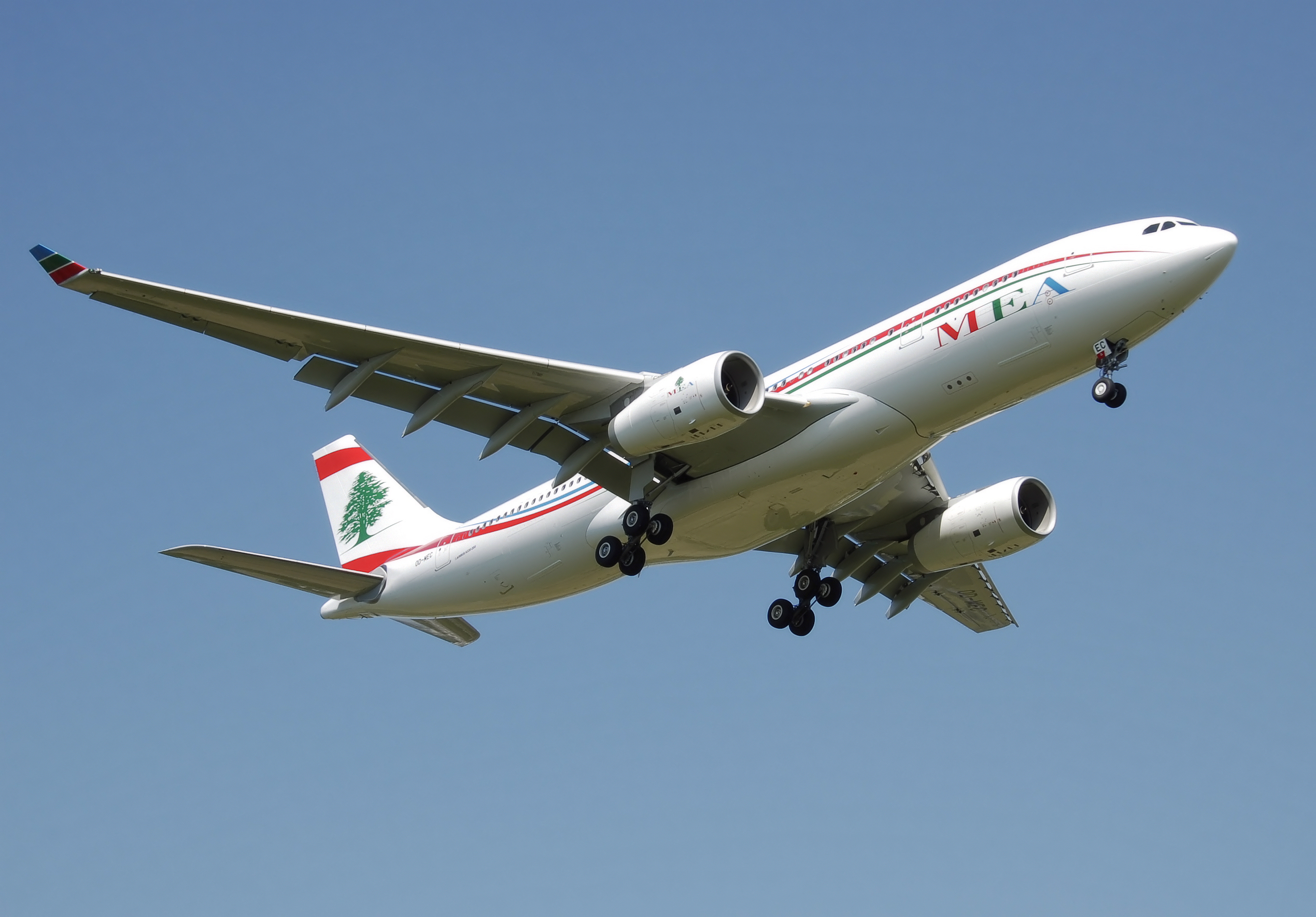 Middle East Airlines A330-200 (OD-MEC) lands at London Heathrow Airport, England.